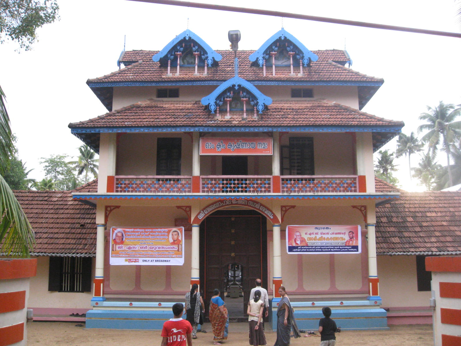 Sree Venugopalaswamy Temple Chendamangalam